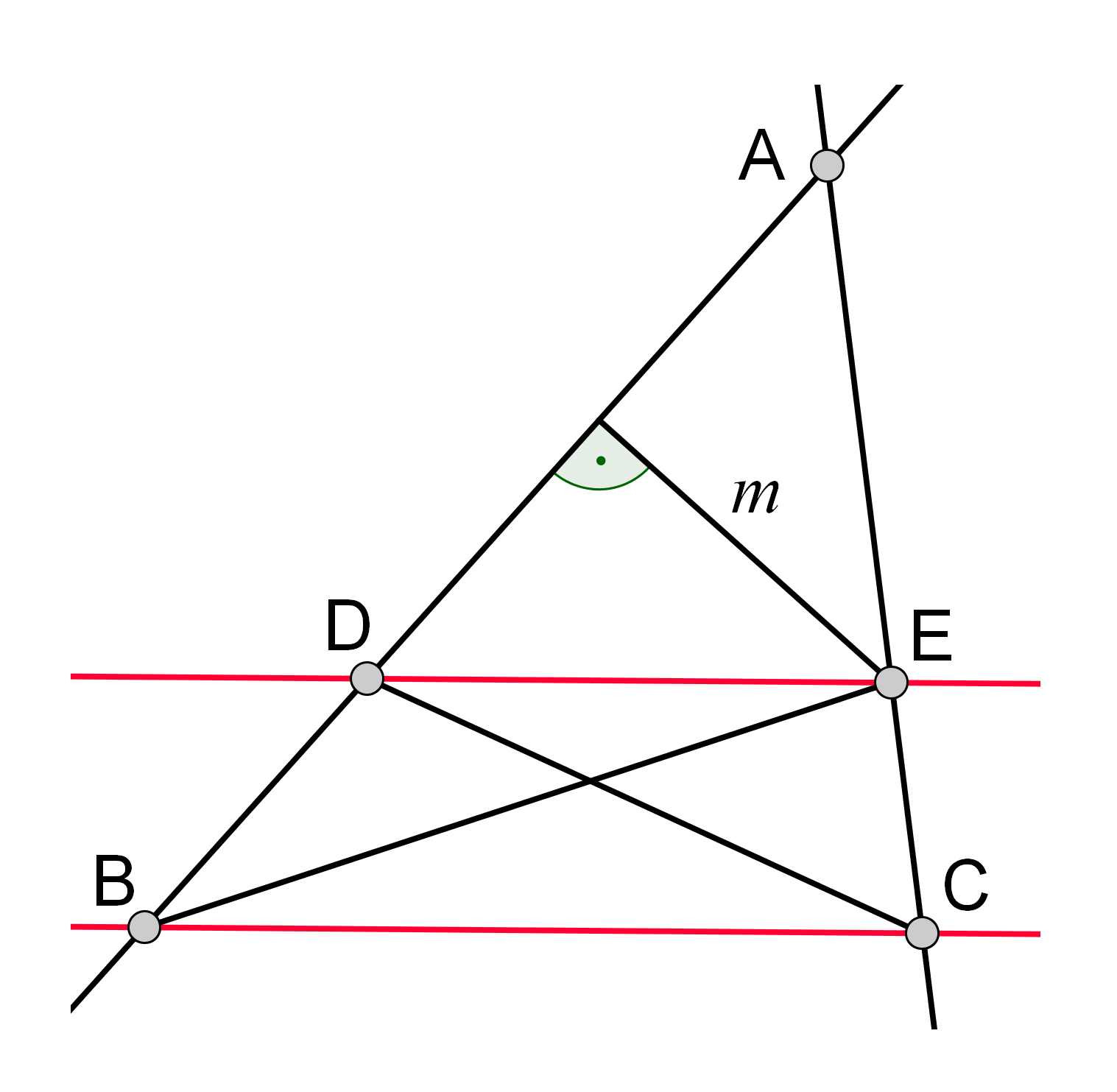 Illustration for the proof of intercept theorem.